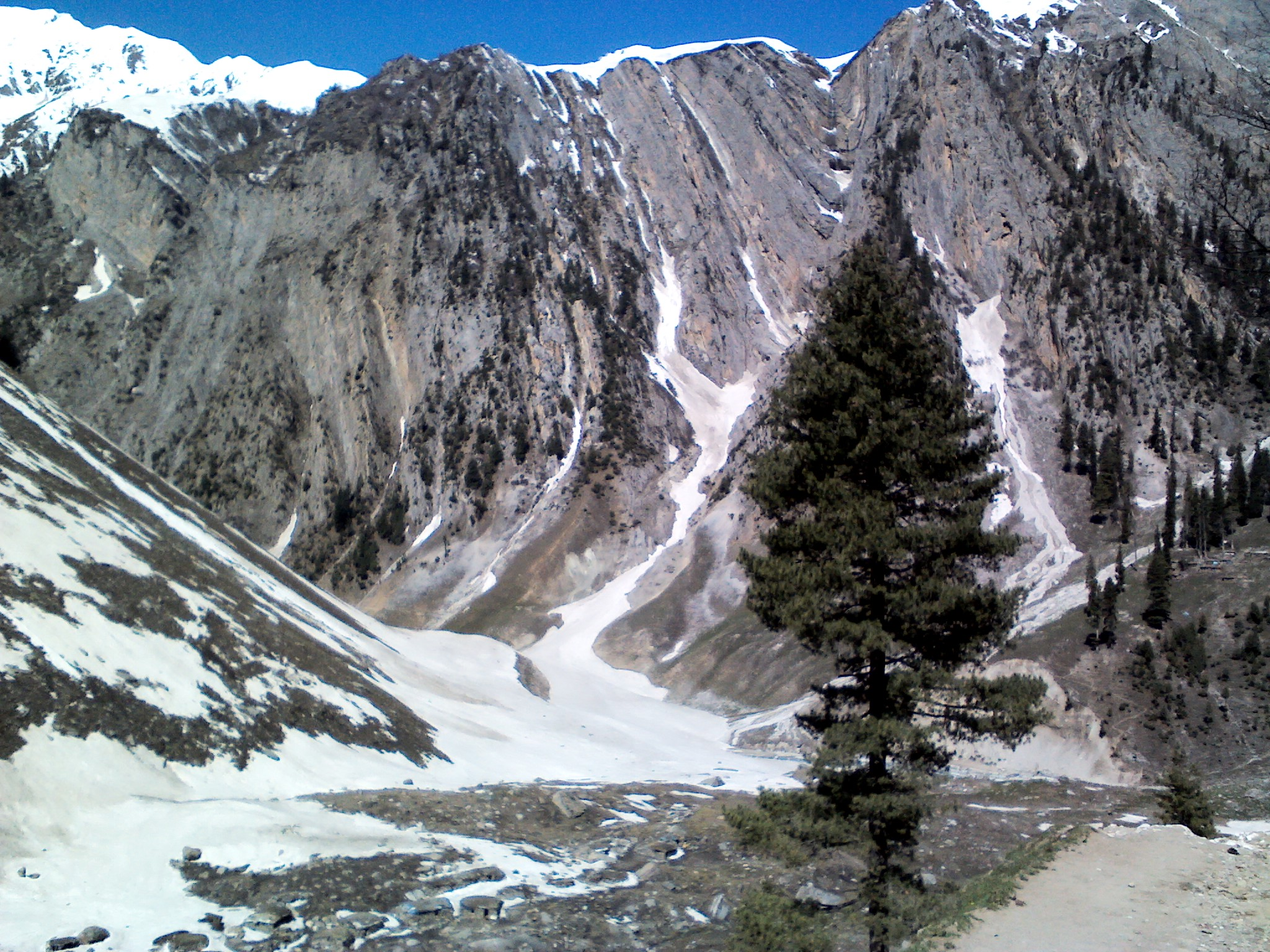 Domail near Sonamarg, 2 kilometers south from Baltal